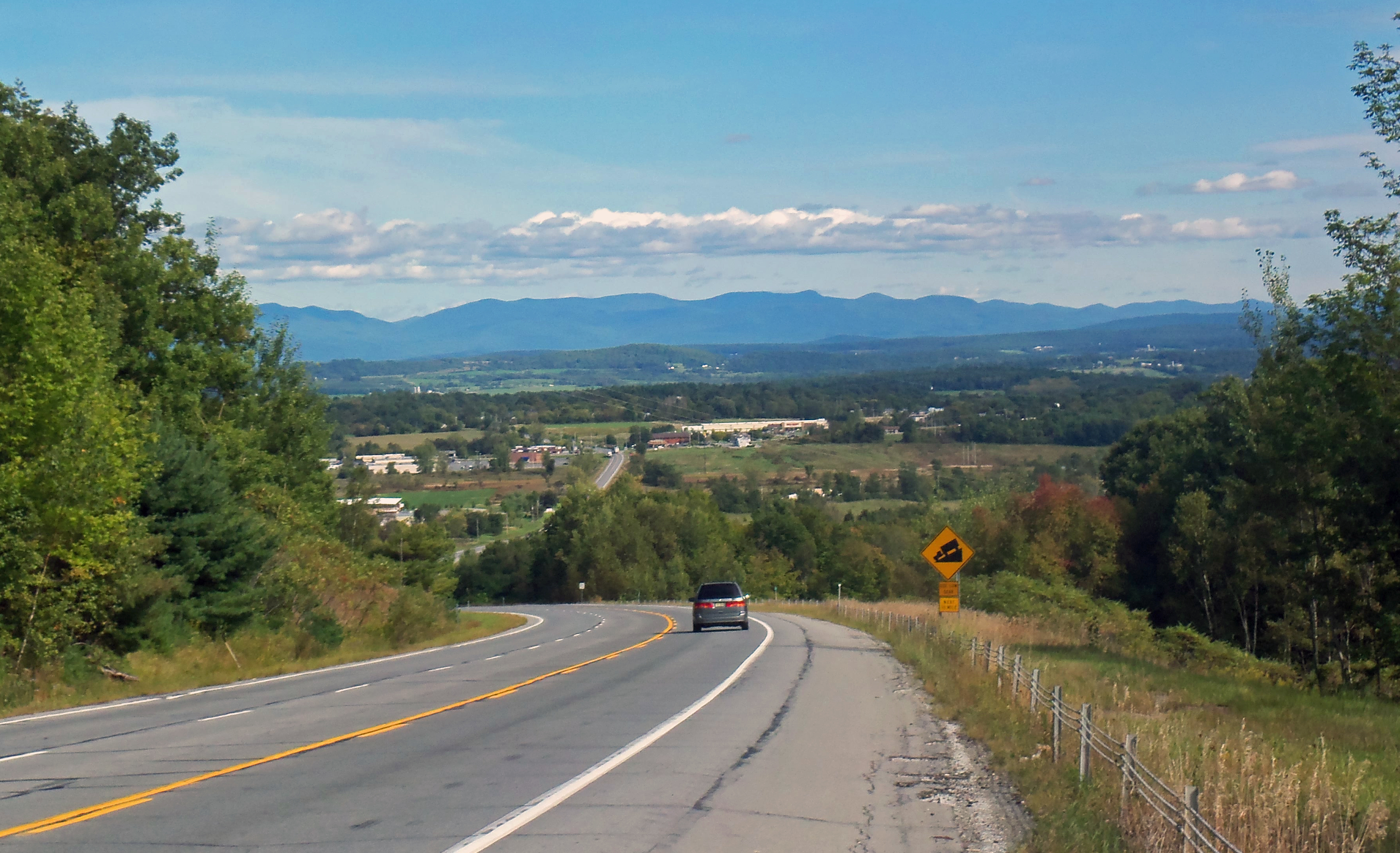 View east from NY 74 as it descends from the Adirondacks west of Ticonderoga, NY, USA. The Green Mountains of Vermont are visible in the distence